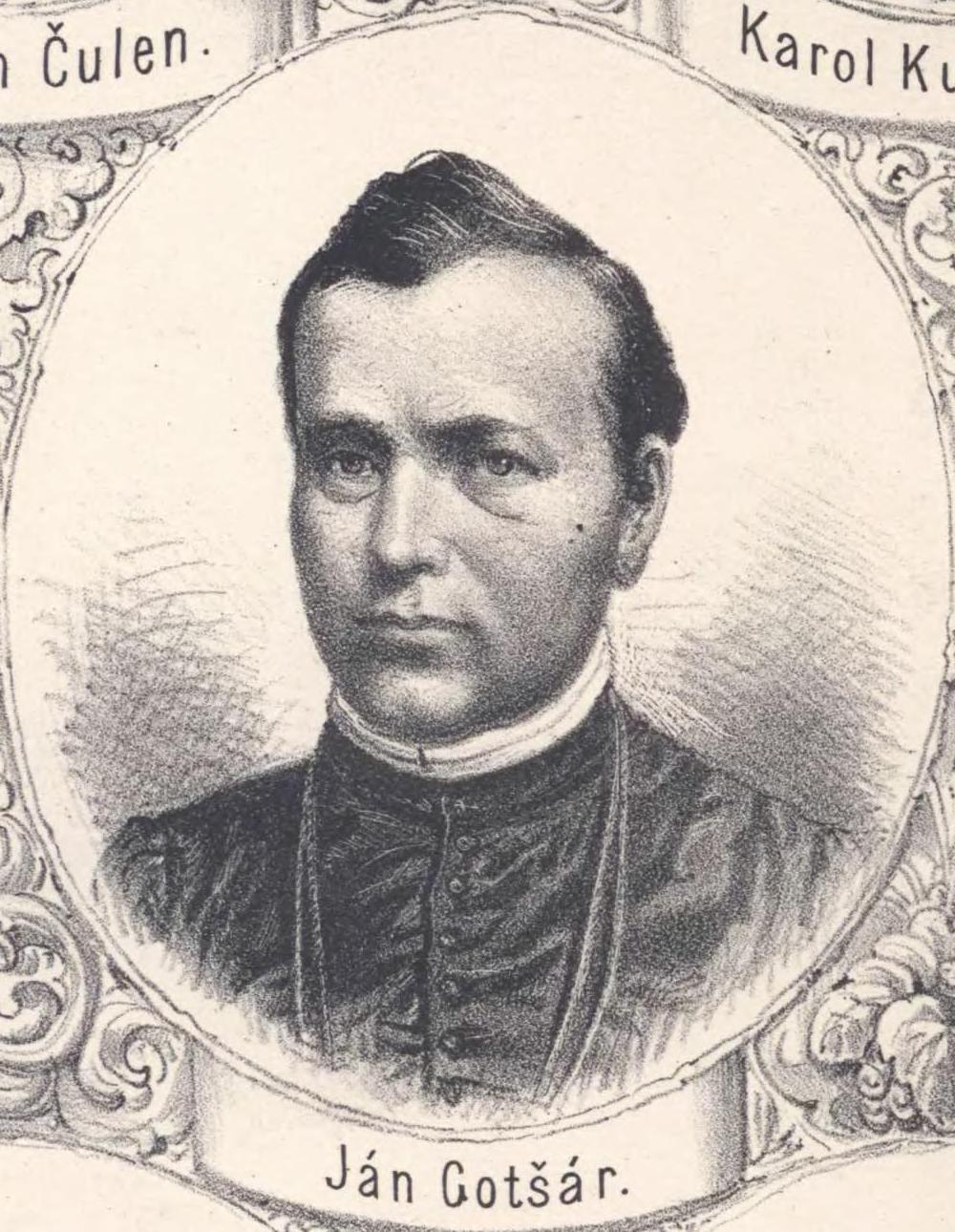 Portrait of Ján Gotčár (1823 - 1883), Slovak teacher. Picture cropped from a gallery of famous Slovaks.